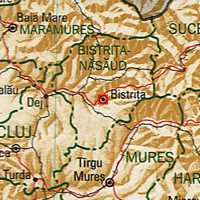 Map of Bistrița Municipality, Romania.